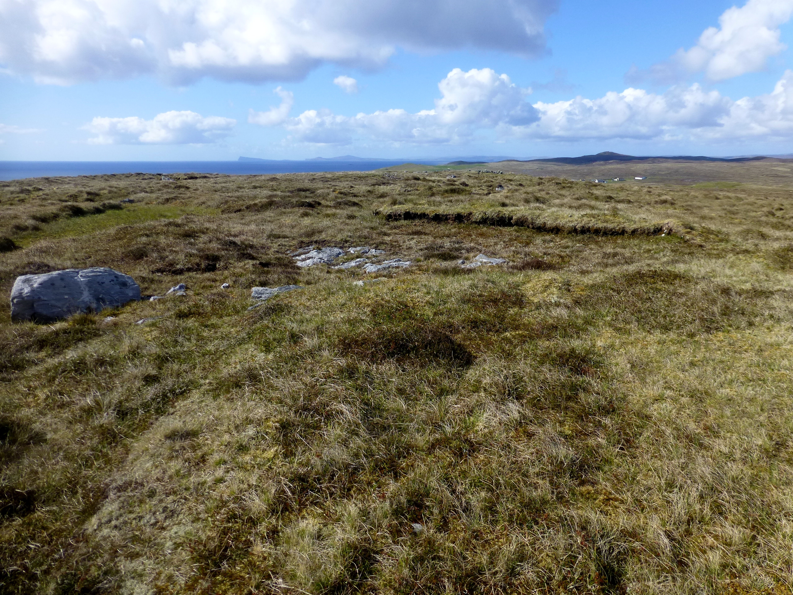 Gamla Vord